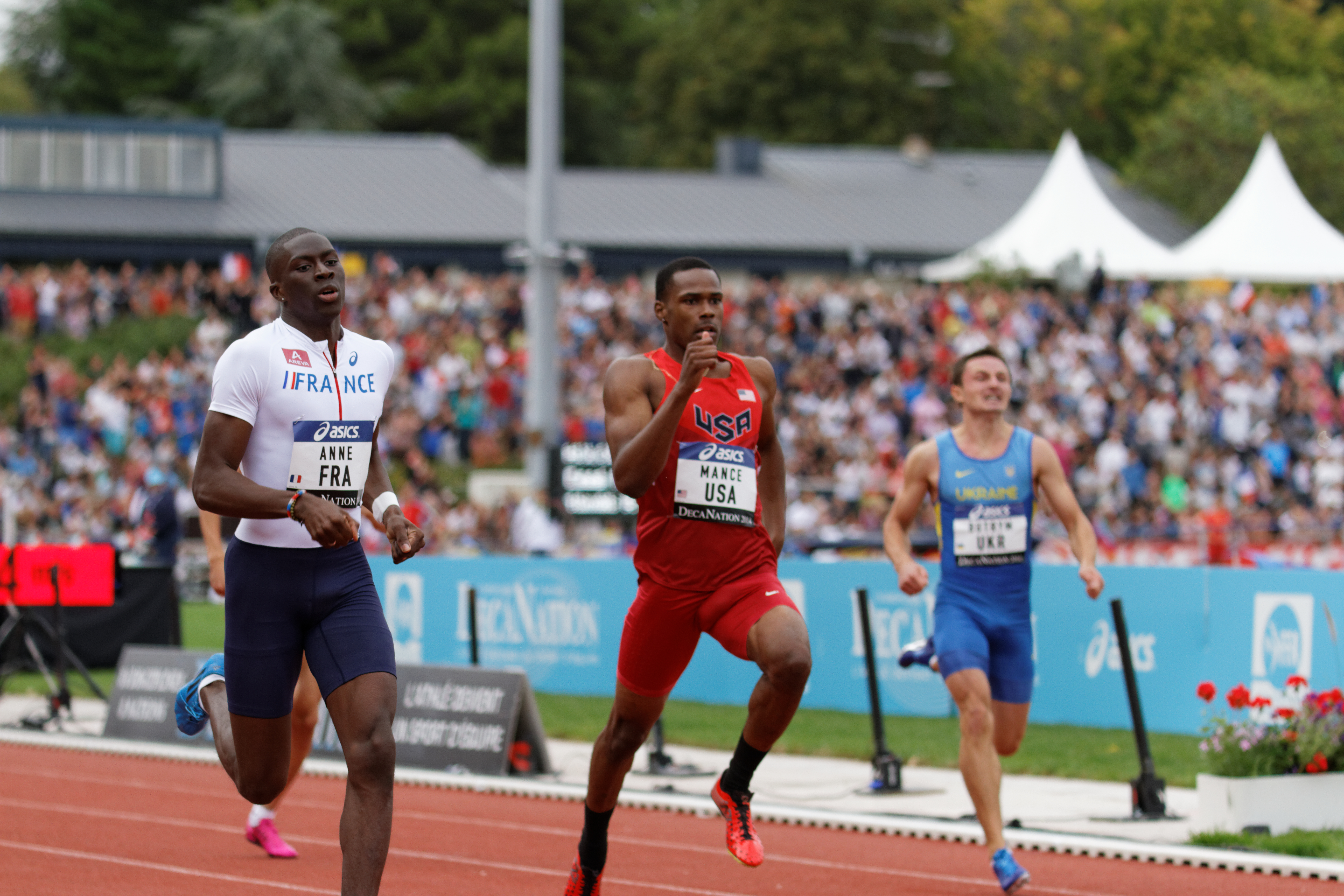 DécaNation 2014